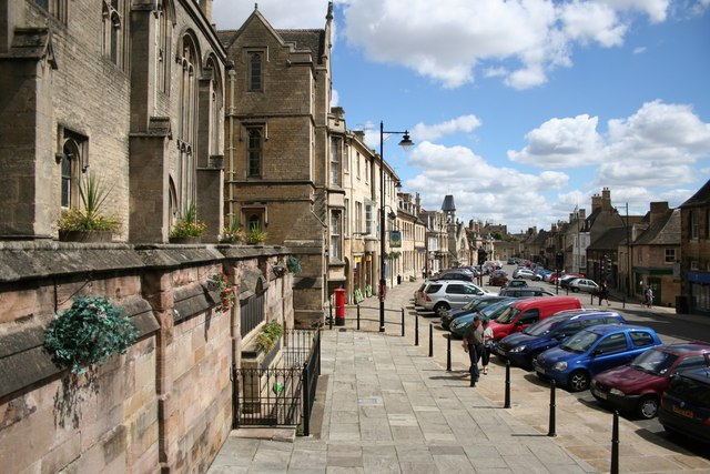 Broad Street. Looking east along Broad Street from the steps of Browne's Hospital